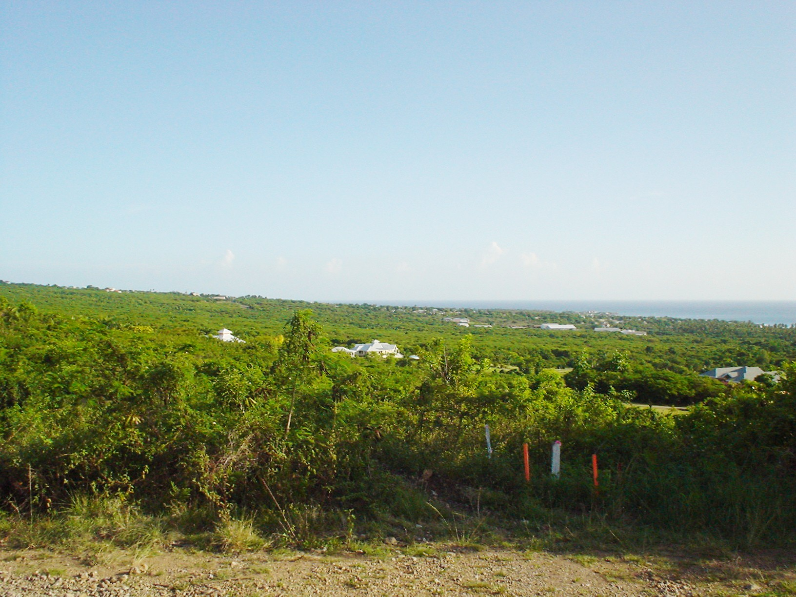 This file was first taken by (and then released to wikpedia by) kayokayo.